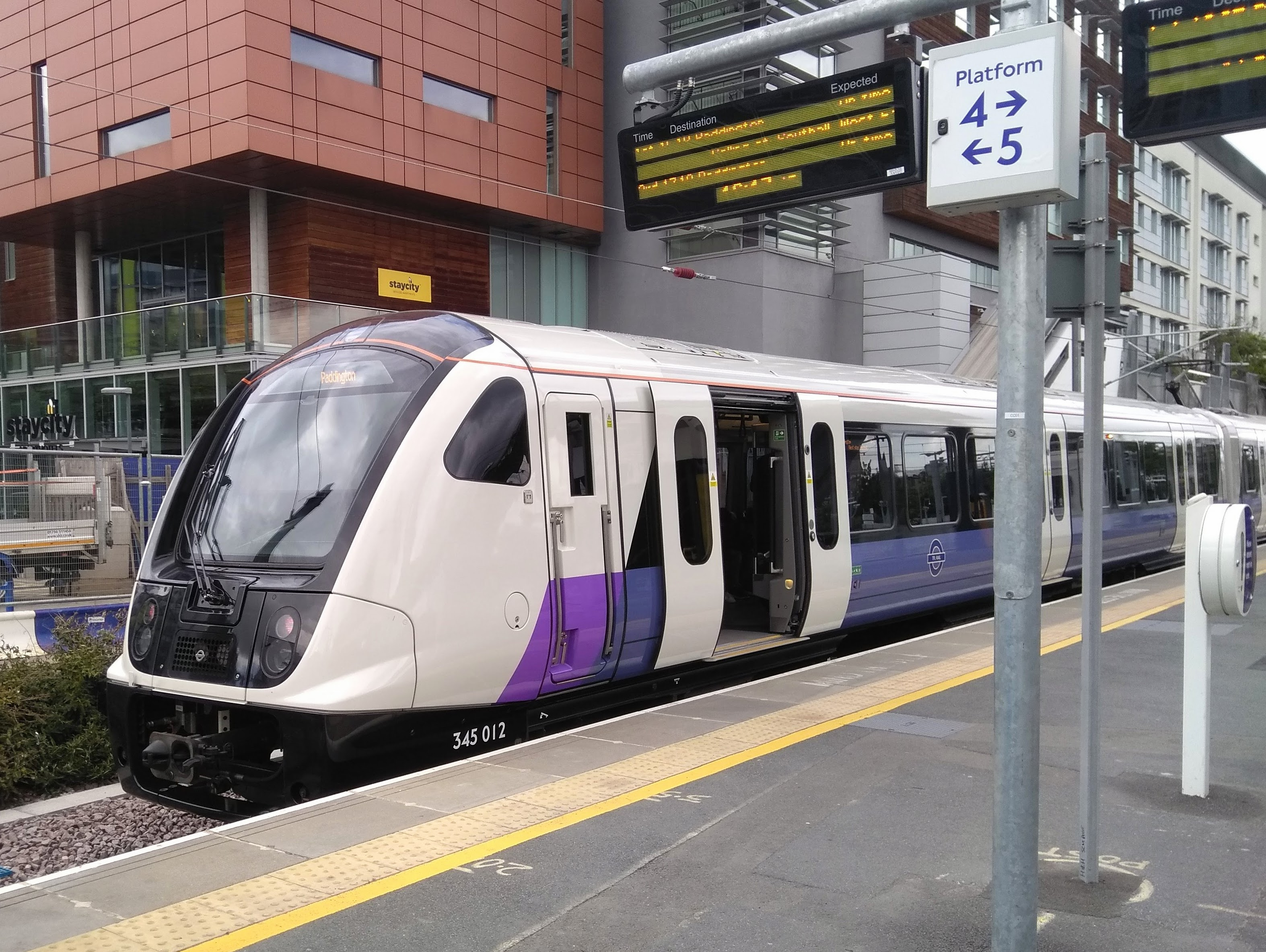 TfL Rail Class 345 unit 345012 at Hayes & Harlington station